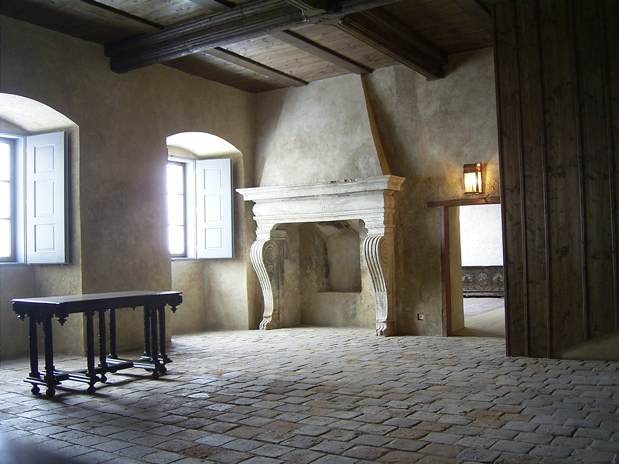 Grabštejn Castle, northern Bohemia. Hall with fireplace.